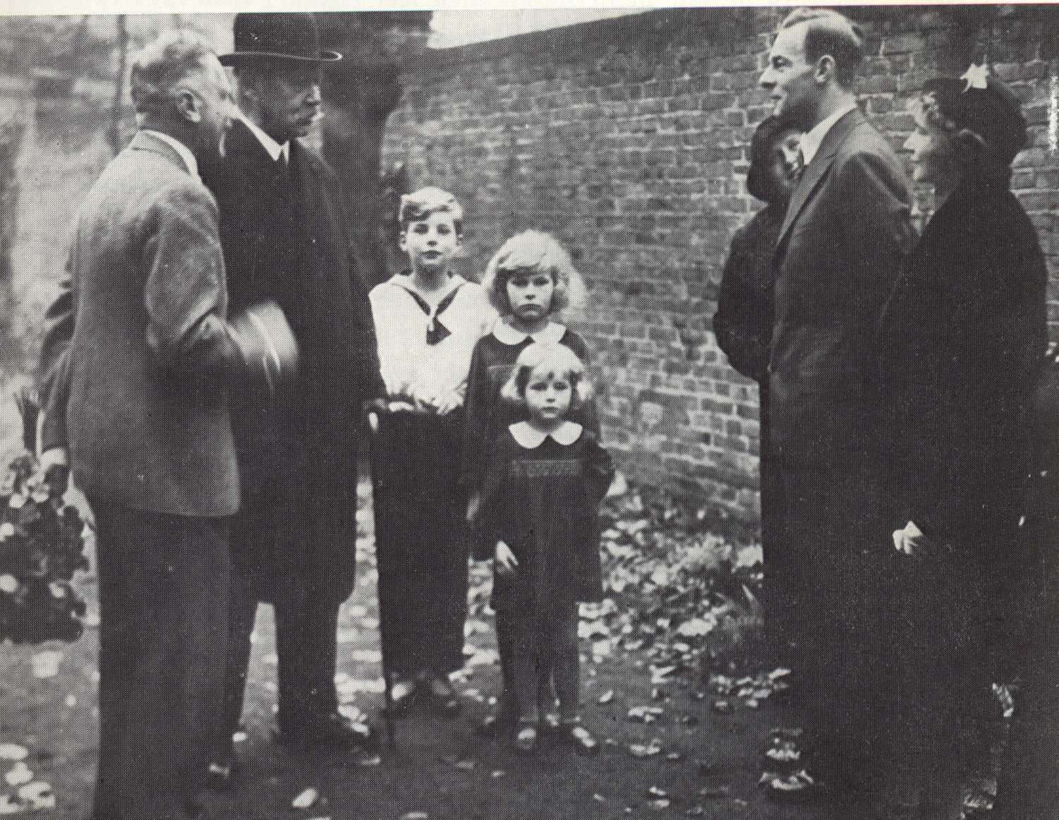 F.G. Tschirschky extending his congratulations to german Reich President von Hindenbrug on the occasion of the latter's 86th birthday in 1933. Left to right: F. von Papen (Vice-Chancellor), Hindenburg, children of Tschirschky, Tschirschky, Mrs. Tschirschky.